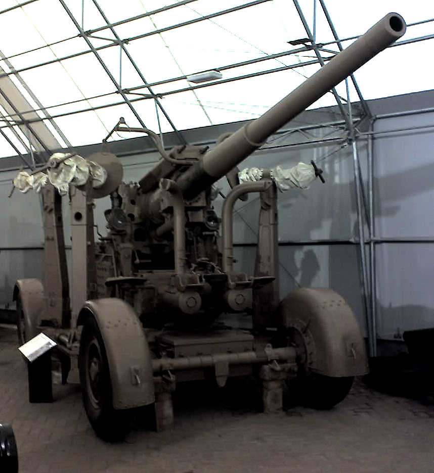 British 3.7in AA gun of WWII vintage, in Royal Amroury Fort Nelson, Hampshire, UK. Taken Feb 07.